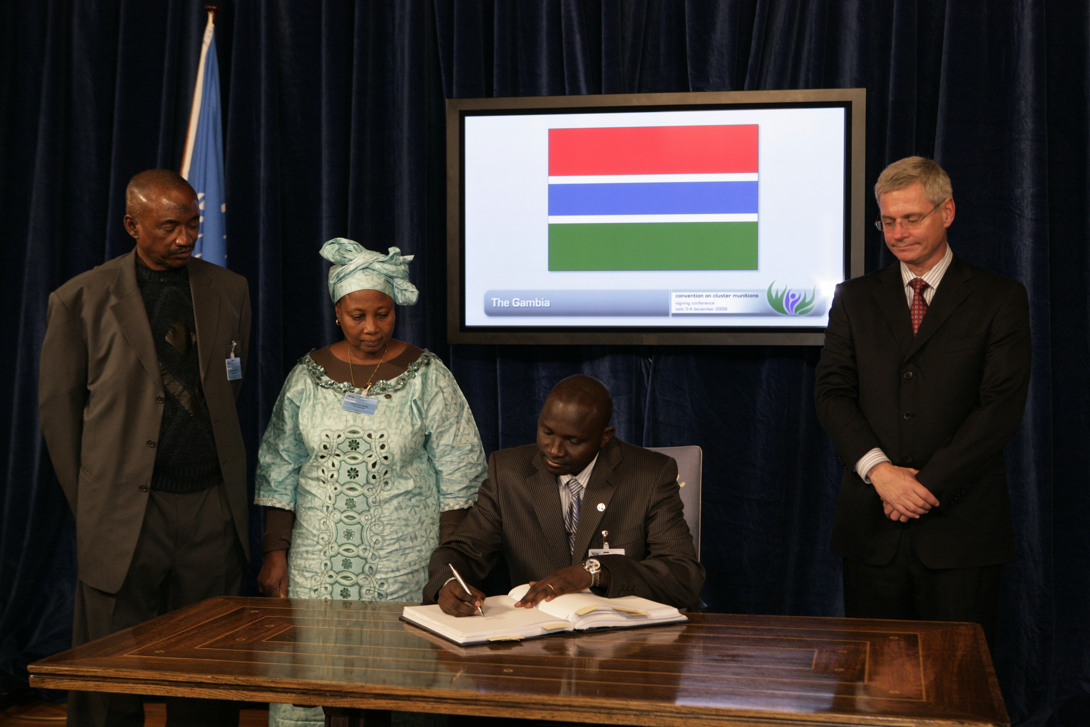 NORWAY, Oslo 20081203: CCM signing conference Hand out image. PHOTO: Gunnar Mjaugedal/catchlight.no